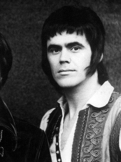 Publicity photo of the music group Three Dog Night. From left: Chuck Negron, Cory Wells, Danny Hutton.